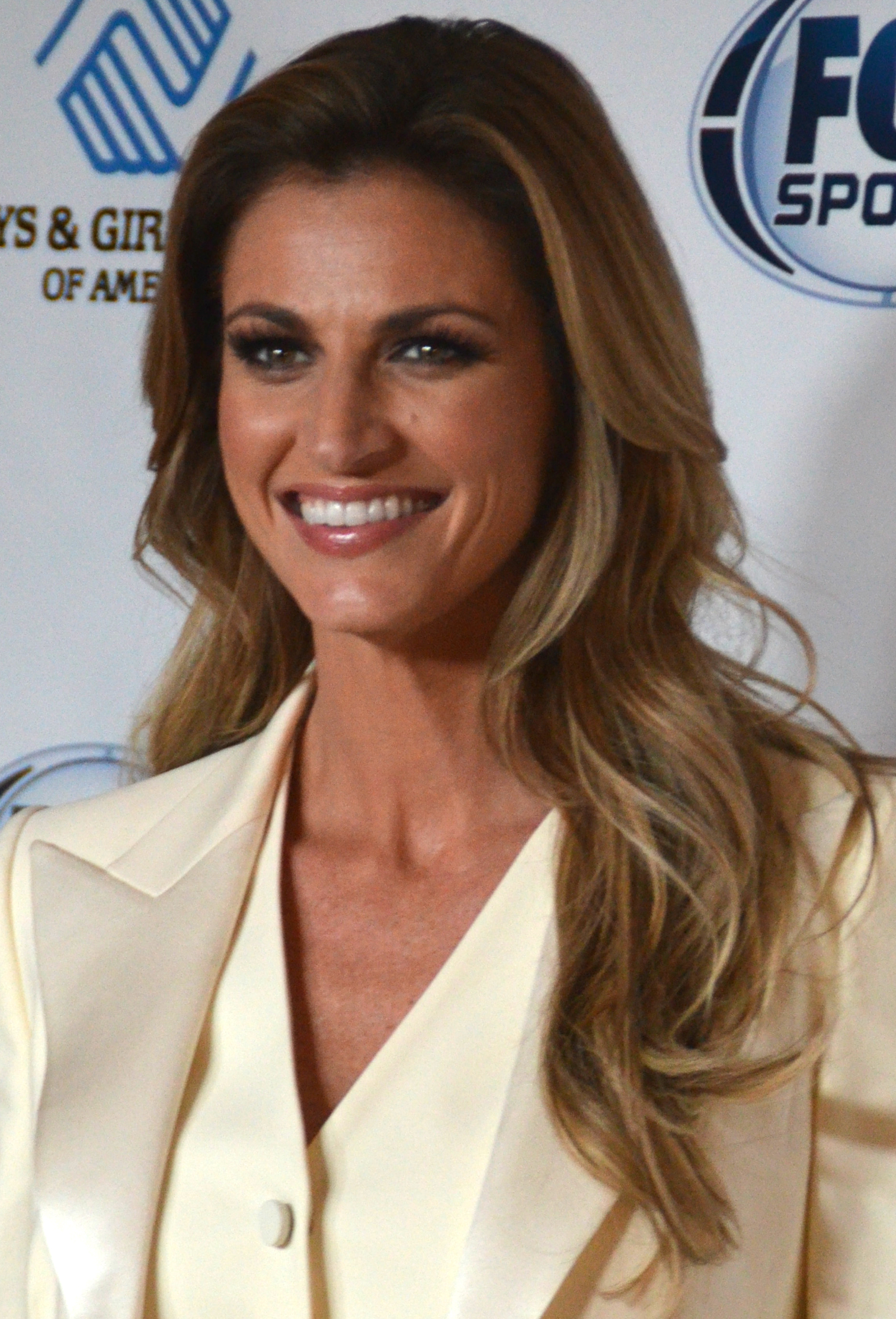 Erin Andrews at the Boys & Girls Clubs Great Futures Gala at the Beverly Hilton on November 5, 2014